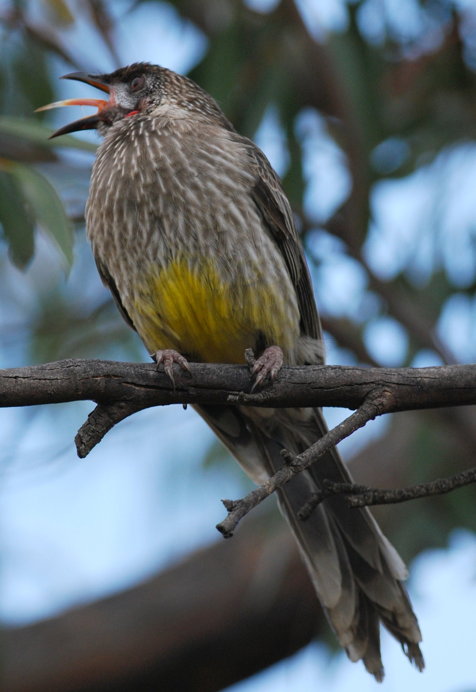 Red Wattle Bird (Anthochaera carunculata) in Spring in South Australia